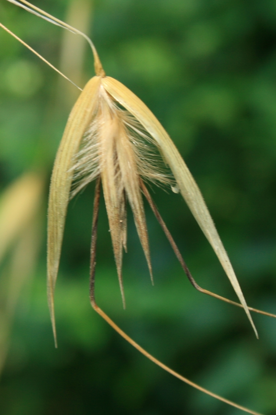 Avena sterilis: Fruits